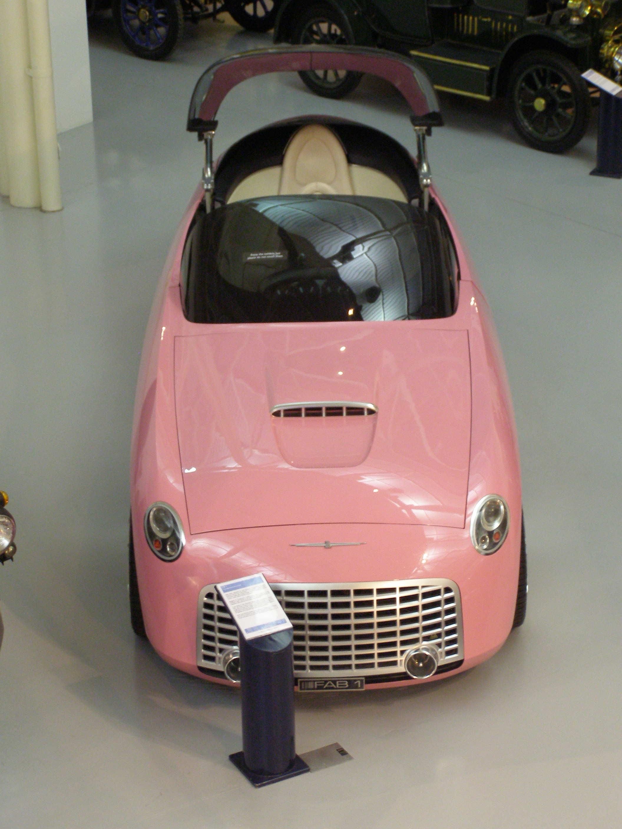 FAB1 from the film Thunderbirds on display at Heritage Motor Centre